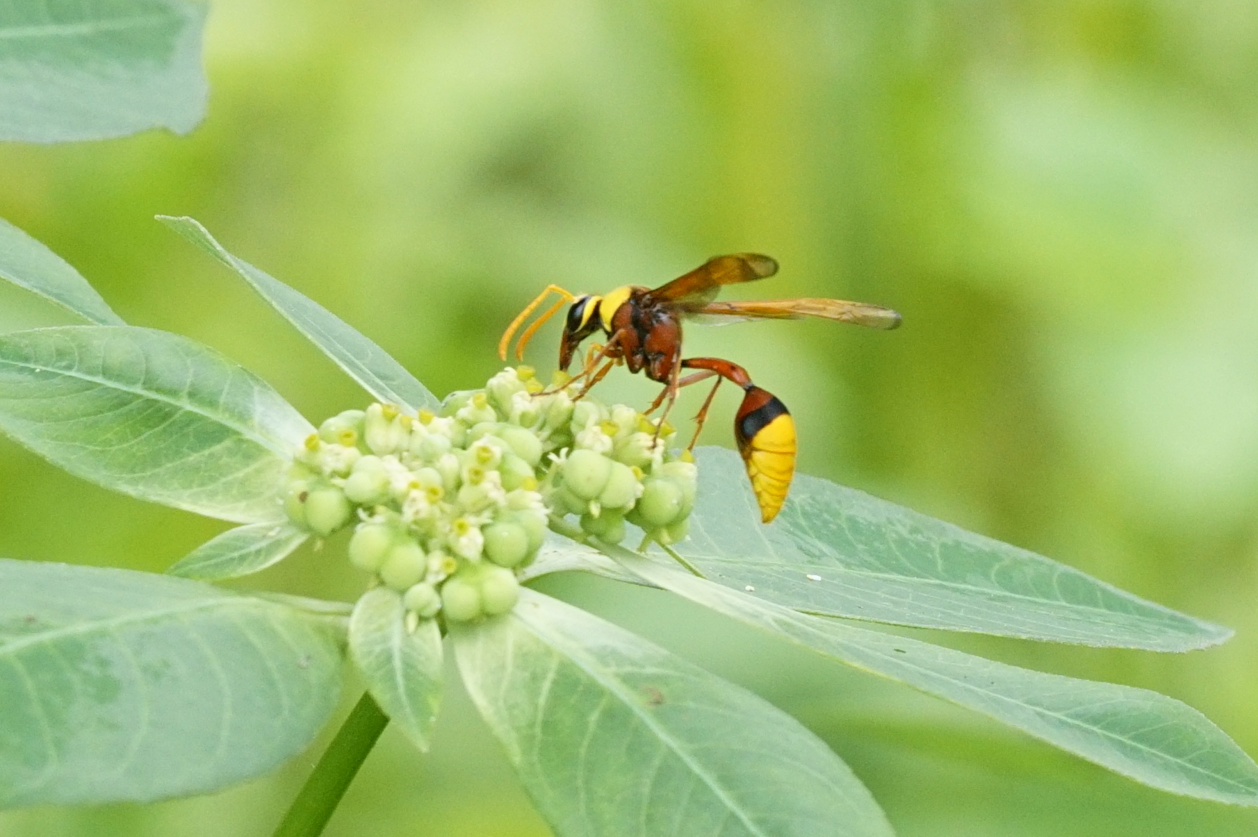 Kottakkunnu